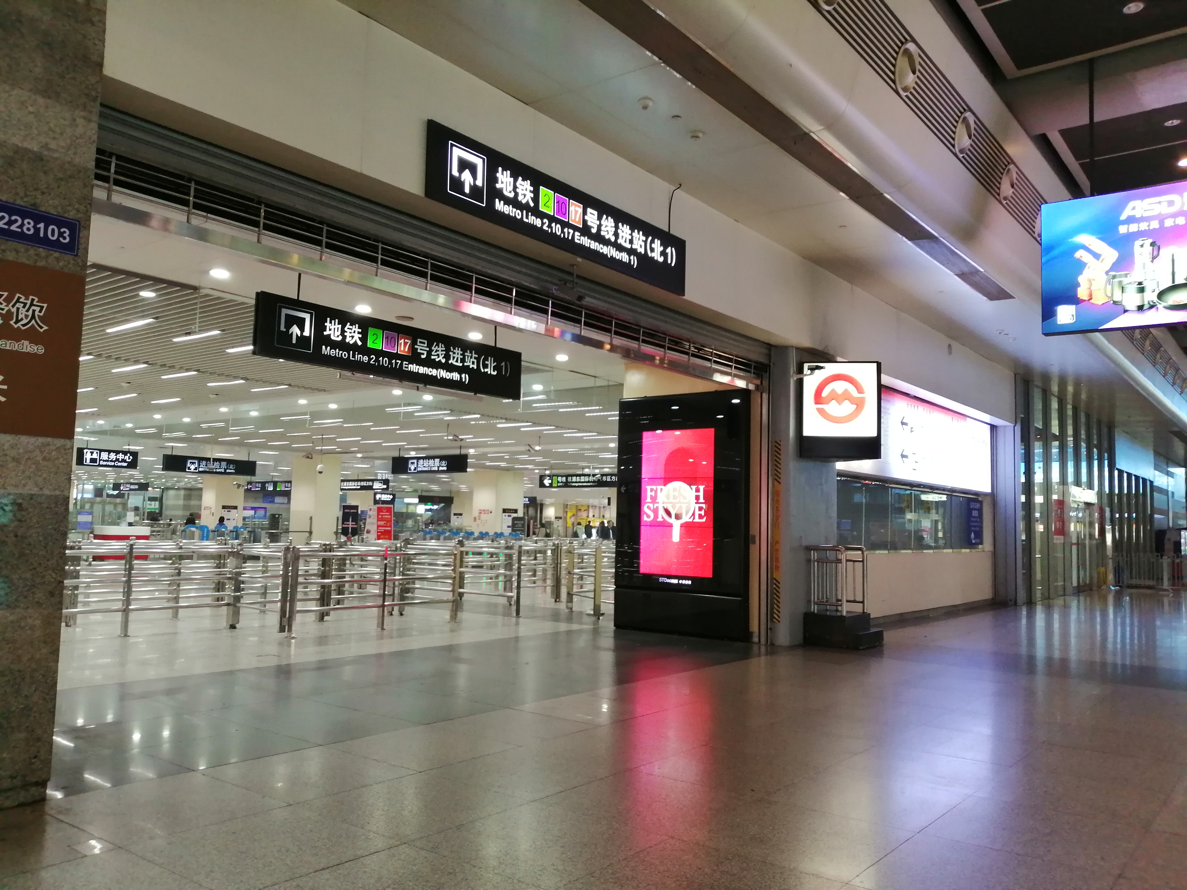 It is 7:30 am, there is no crowds here, but there are many crowds at the platform.